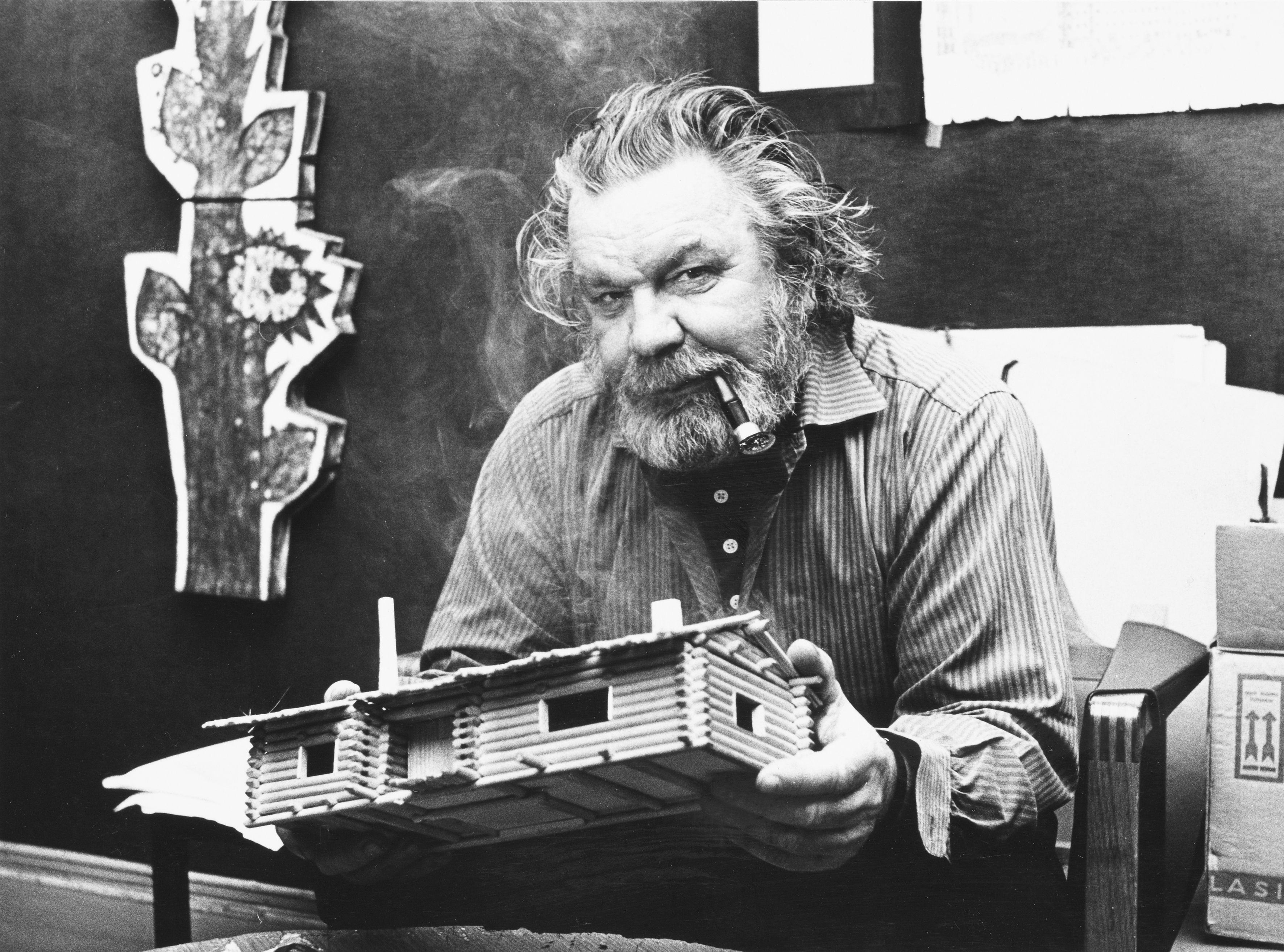 Photograph of the Finnish designer Tapio Wirkkala.